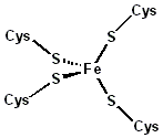 structural representation of a rubredoxin active site